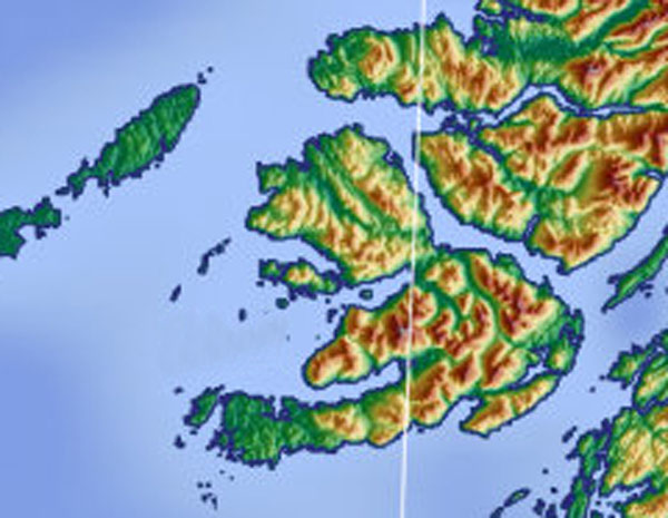 Isle of Mull, Scotland (topographic)